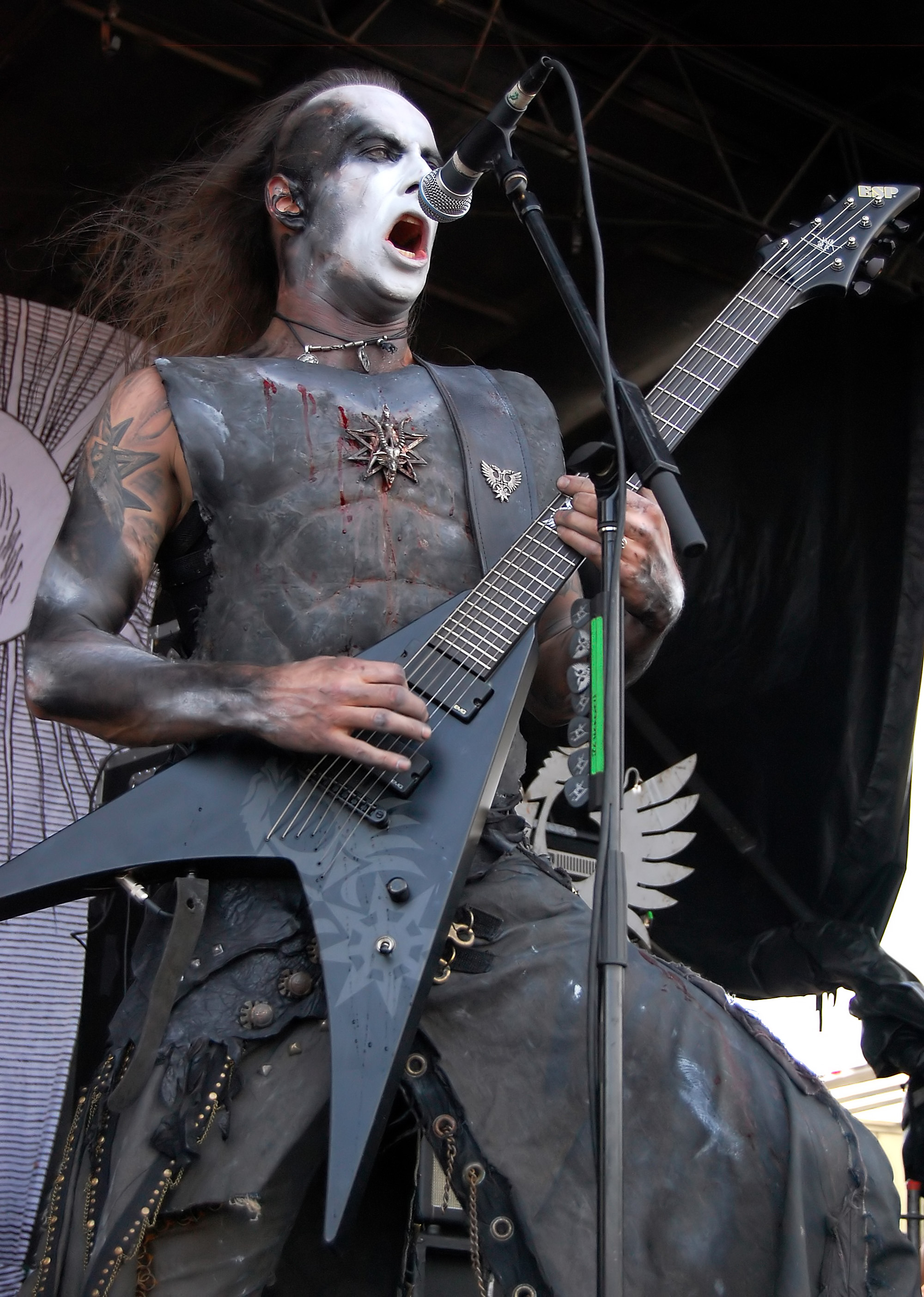 Behemoth at Mayhem Fest Hartford